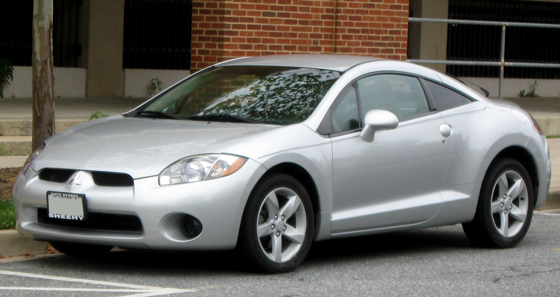 2006-2008 Mitsubishi Eclipse GS coupe photographed in College Park, Maryland, USA.